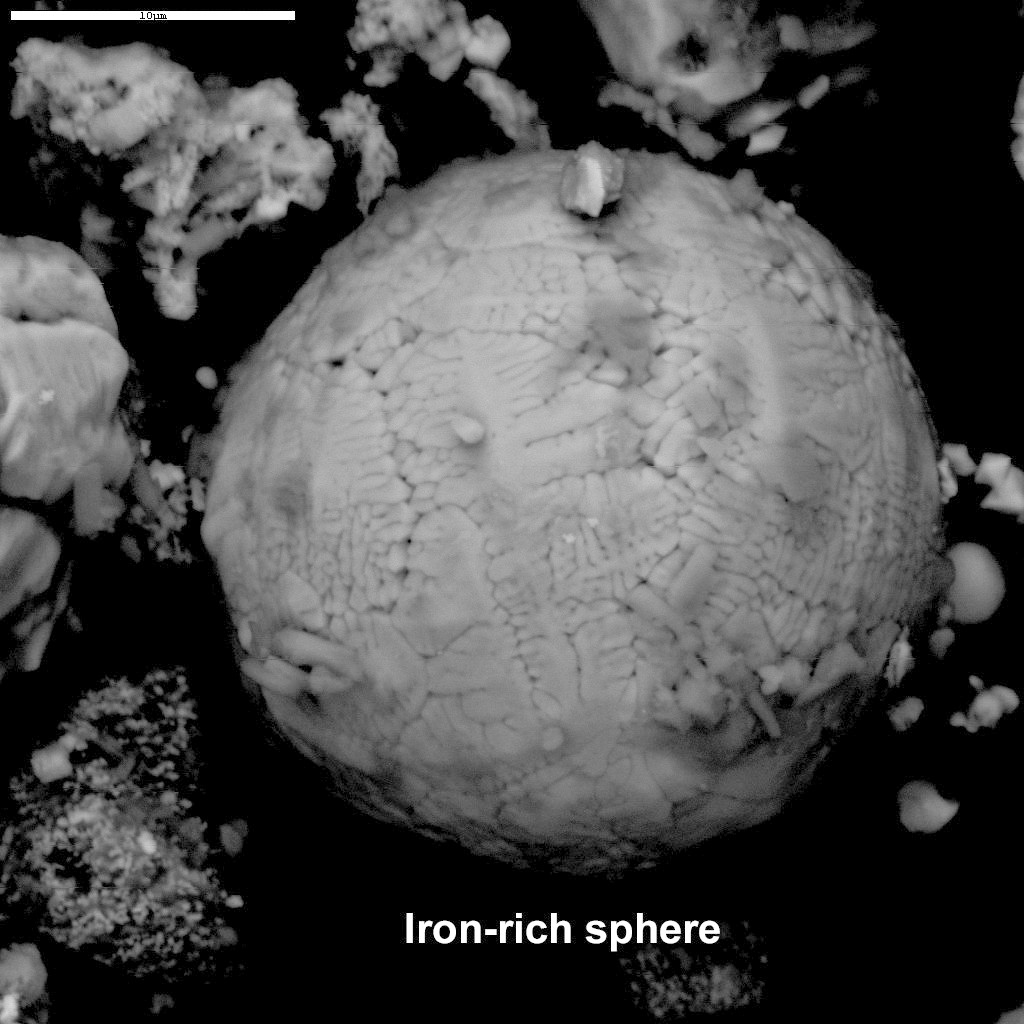 Iron-rich sphere, found in the dust from the destruction of the World Trade Center on September 11, 2001; as documented by the United States Geological Survey. The solidified droplet indicates temperatures in excess of the melting point of iron (2795ºF).